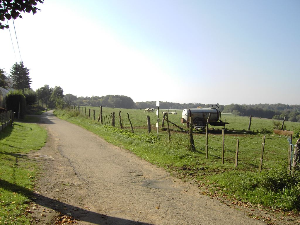 Water trailer on cattle pasture near Linden, Belgium